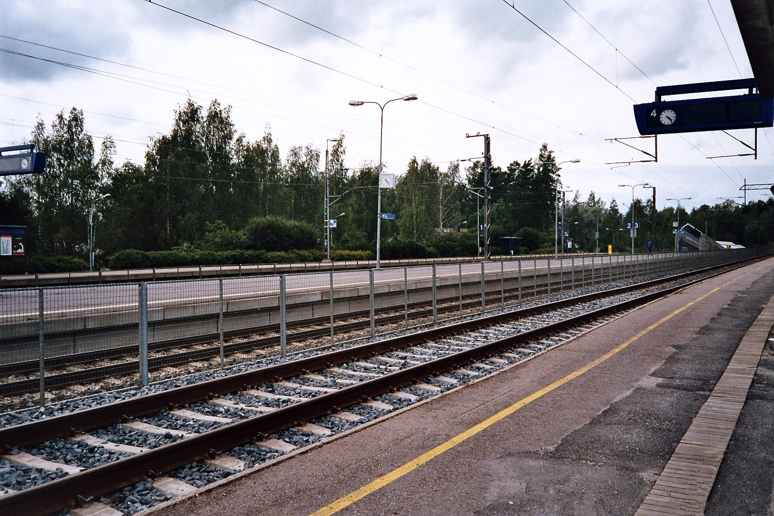 Saunakallio railway station in Järvenpää, Finland.